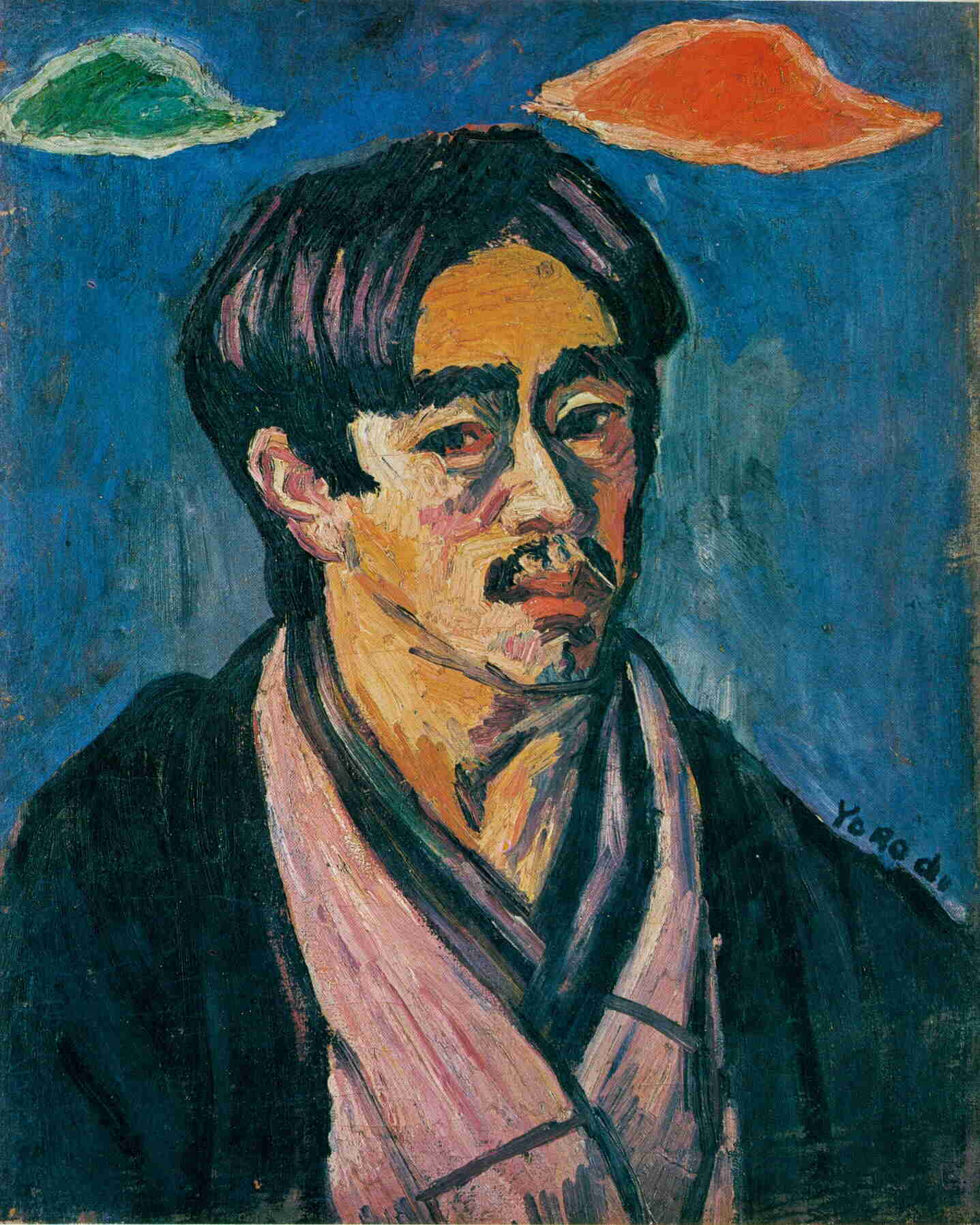 self portrait 1912